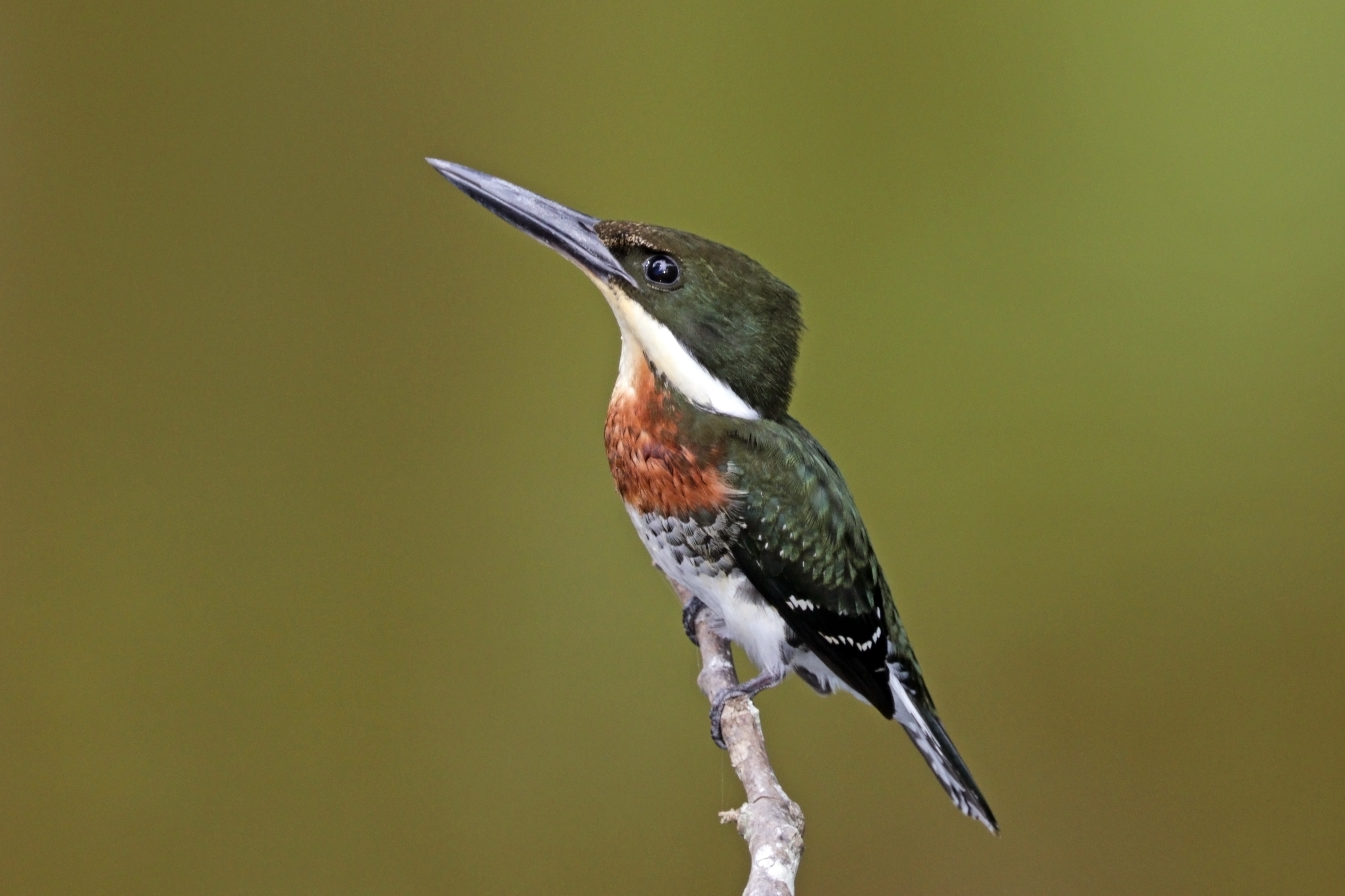 Green kingfisher (Chloroceryle americana septentrionalis) male, Soberania National Park, Panama